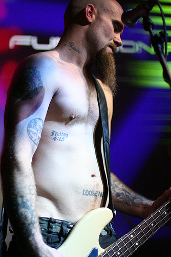 Nick Oliveri & the Mondo Generator playing live at Funktion Rooms 03.12.06.Nick Oliveri